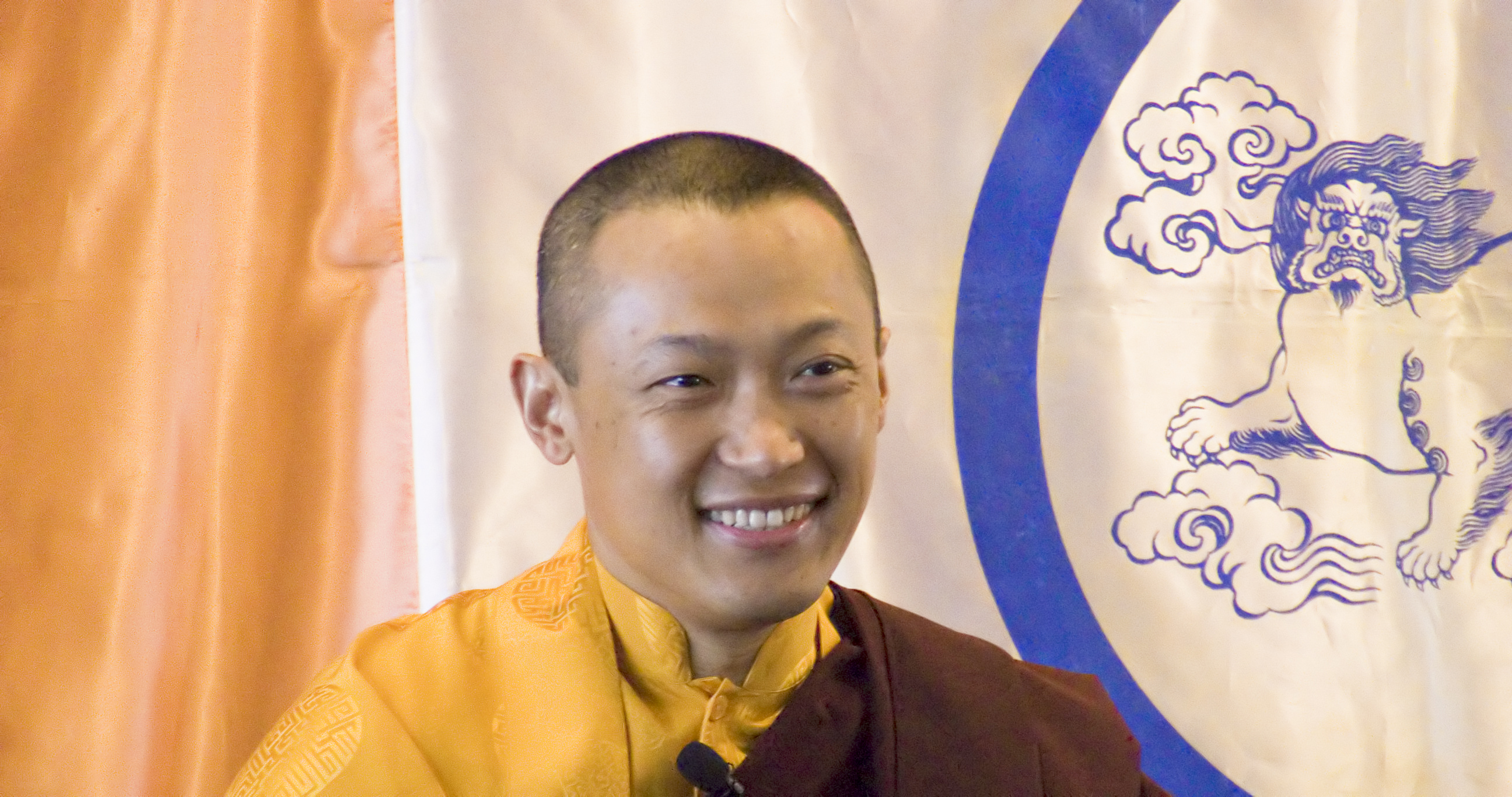 Ruling Your World program in Munich